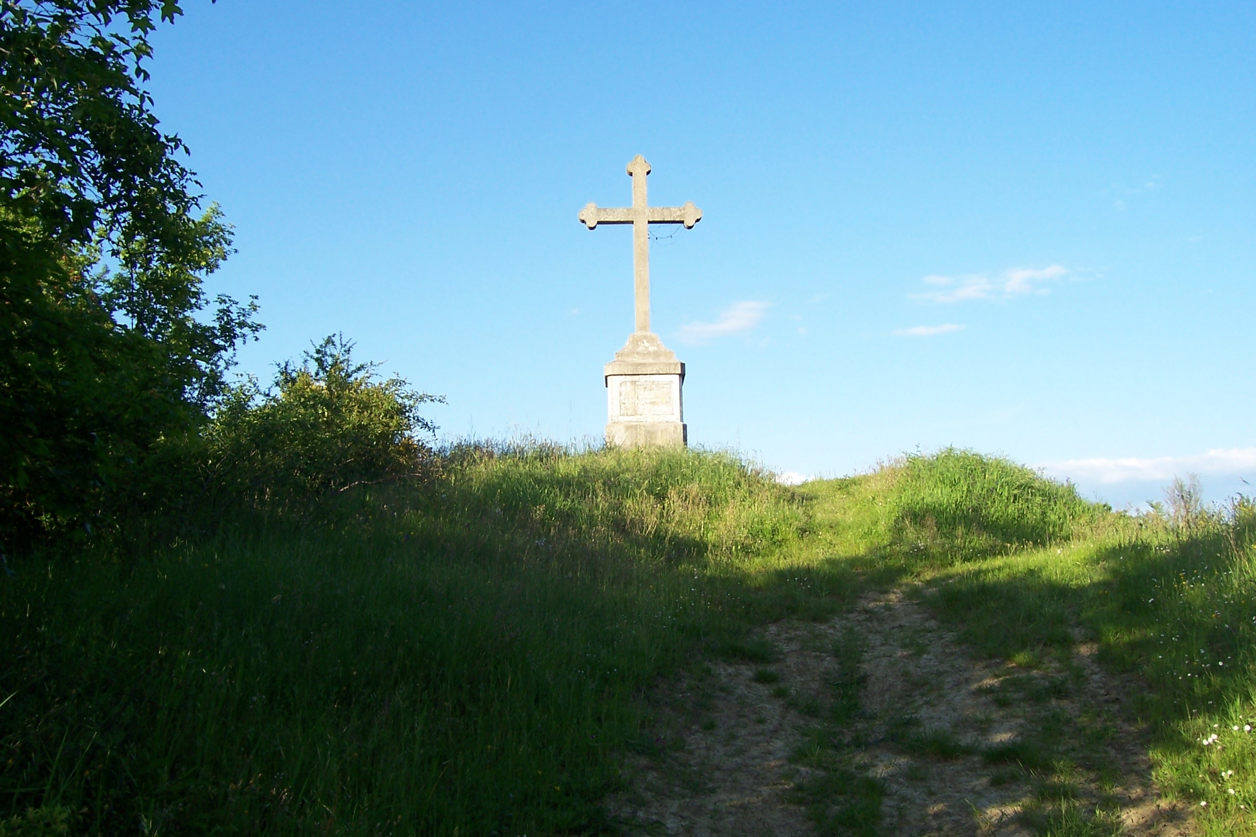 The cross on Cappuccini Hill in Montevarchi